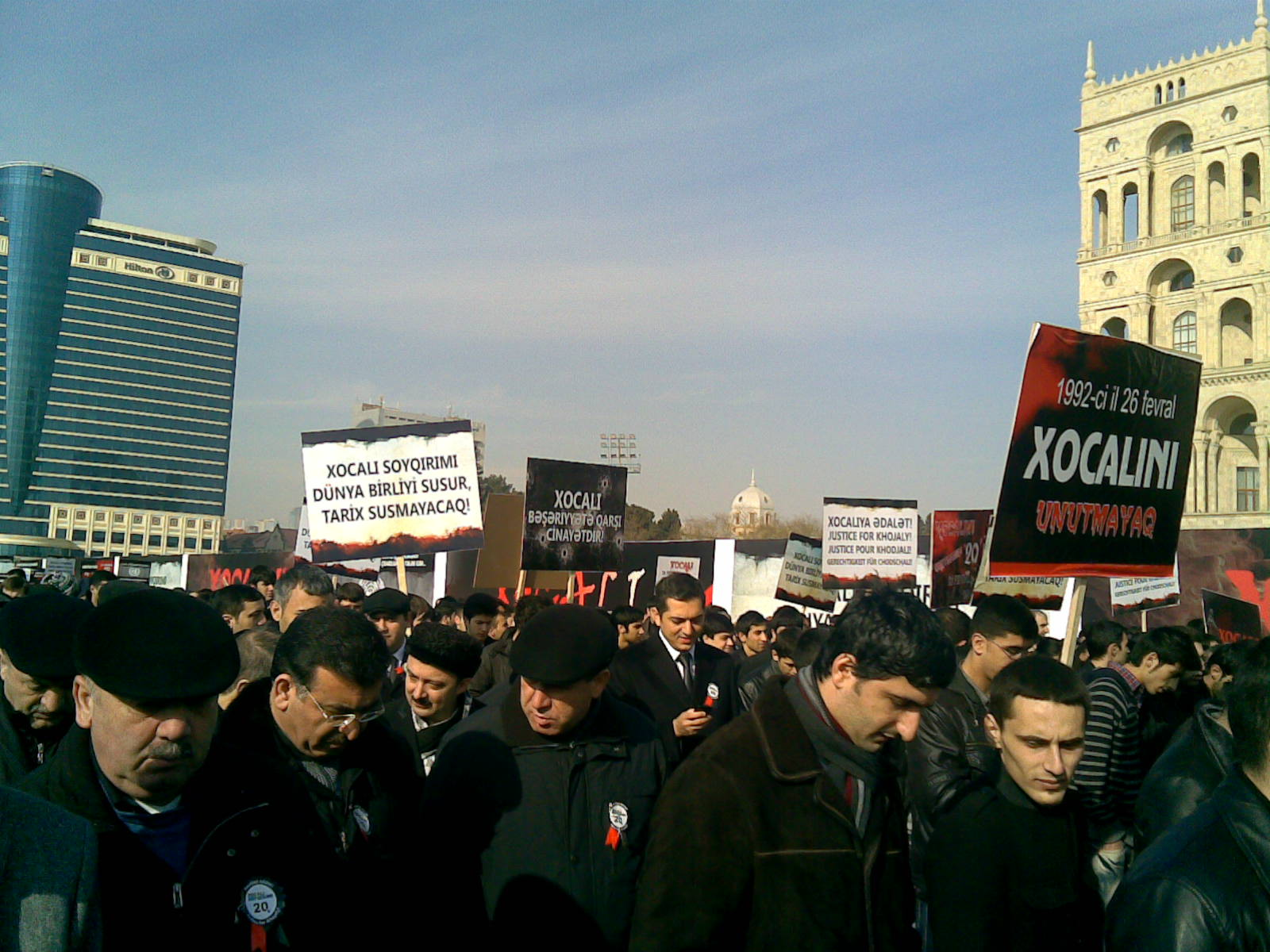 Khojaly 20